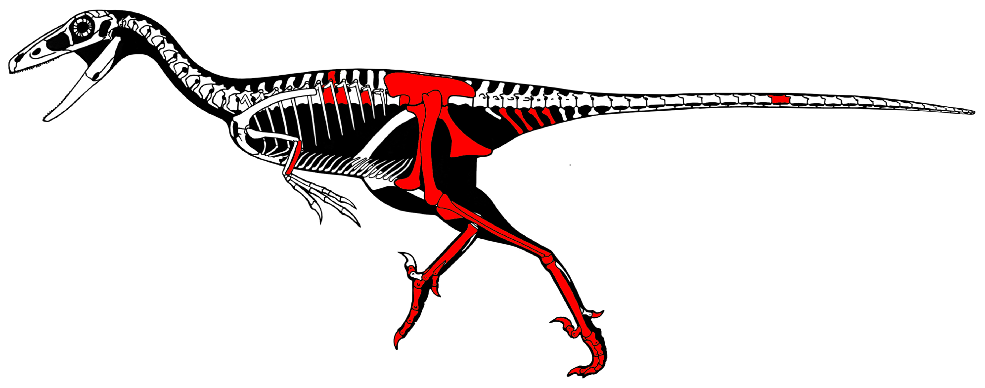 Skeletal reconstruction of Talos sampsoni (UMNH VP 19479). Talos is known from the upper Campanian Kaiparowits Formation, southern Utah, USA. Skeletal drawing illustrates the distribution of elements preserved with the holotype (in red). Missing elements based on Troodon formosus and/or Saurornithoides mongoliensis. Drawing © Scott Hartman[1] 2010.